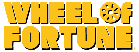 The logo for the American television game show "Wheel of Fortune."